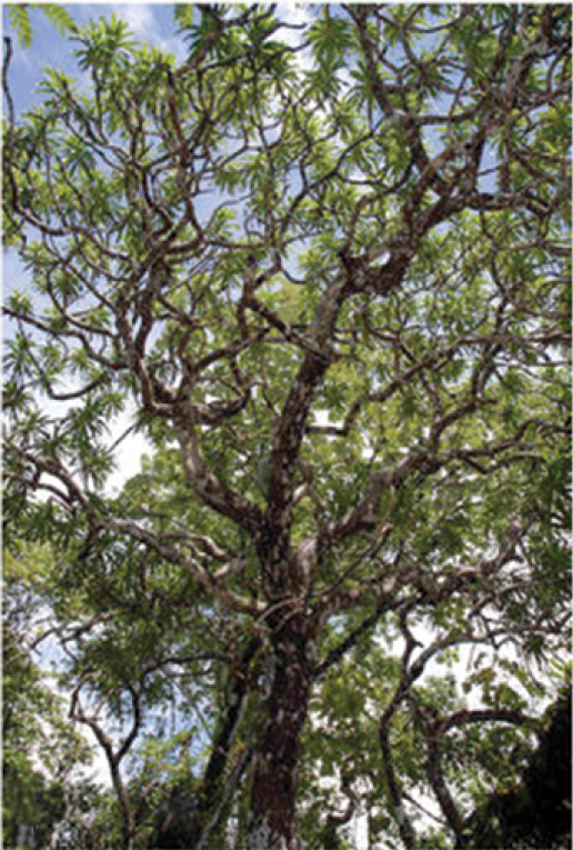 Dracaena kaweesakii viewed from below